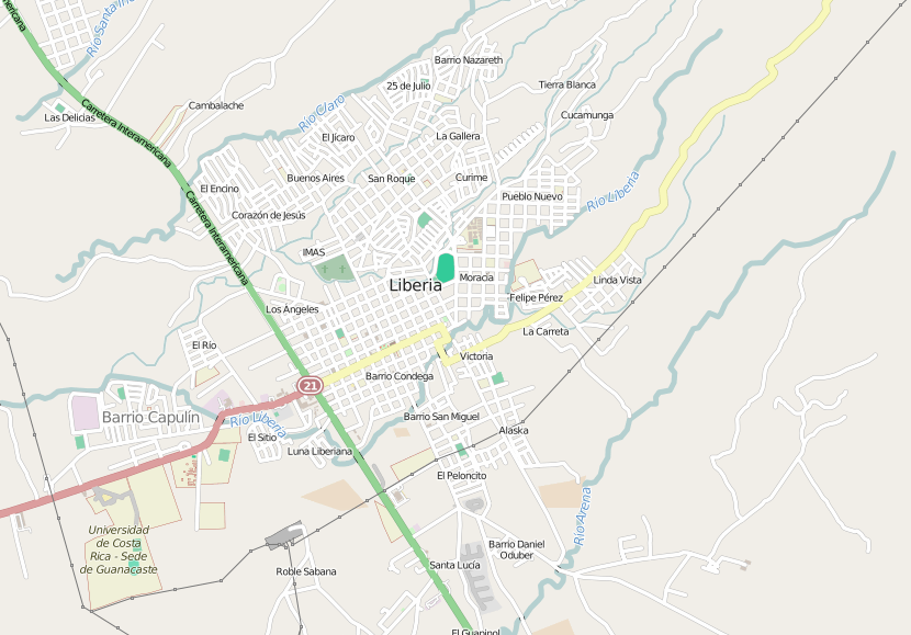 Map of Liberia, Costa Rica